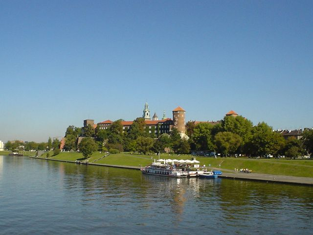 Wawel in Krakow in Poland